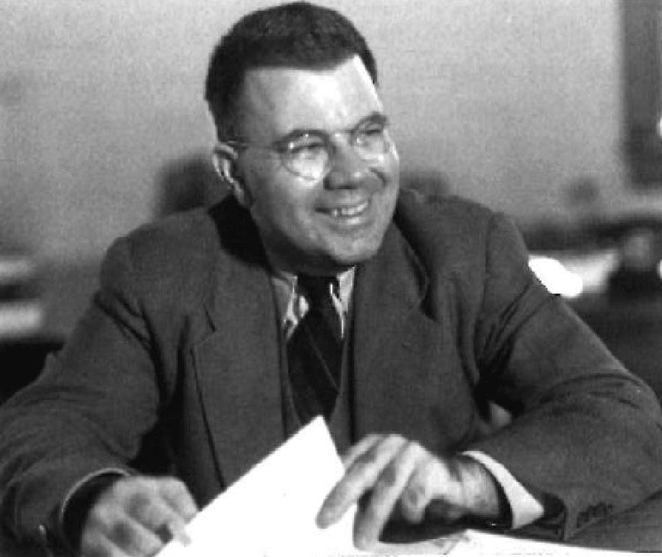 Photograph of Edward Uhler Condon, Physicist and director of the National Bureau of Standards (NBS) now NIST from 1945-1951. Source: National Institute of Standards and Technology